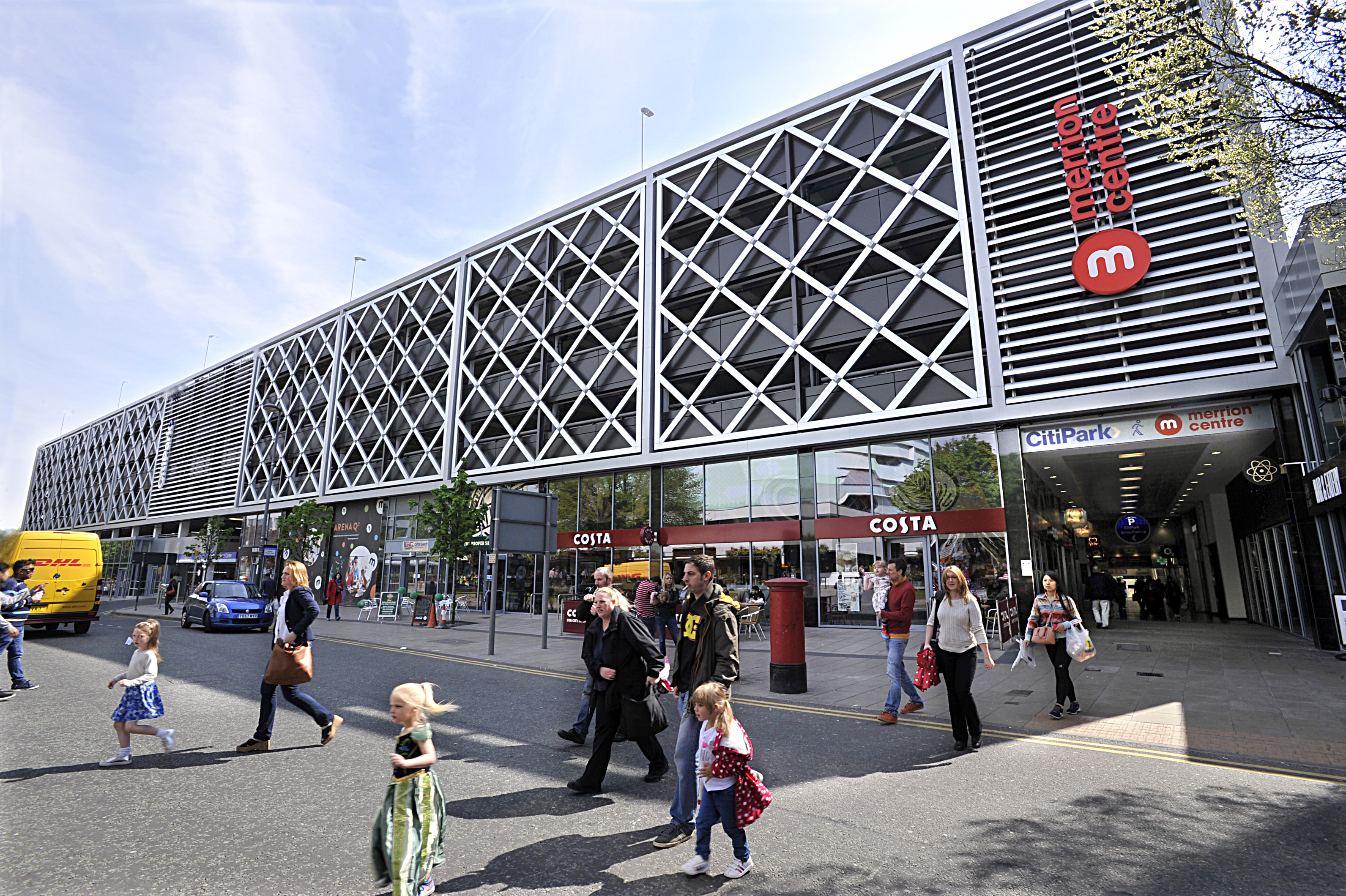 The Merrion Centre new Arena Quarter front which opened in December 2014 (directly facing the popular First Direct Arena)